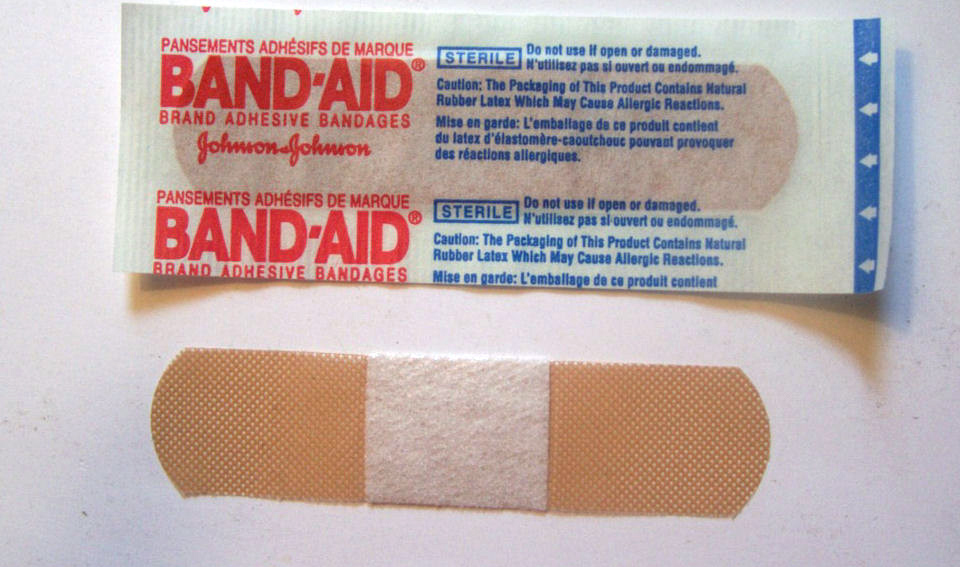 Photo of a Band-Aid manufactured by Johnson & Johnson.